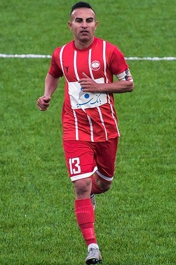 Hossein Kaebi